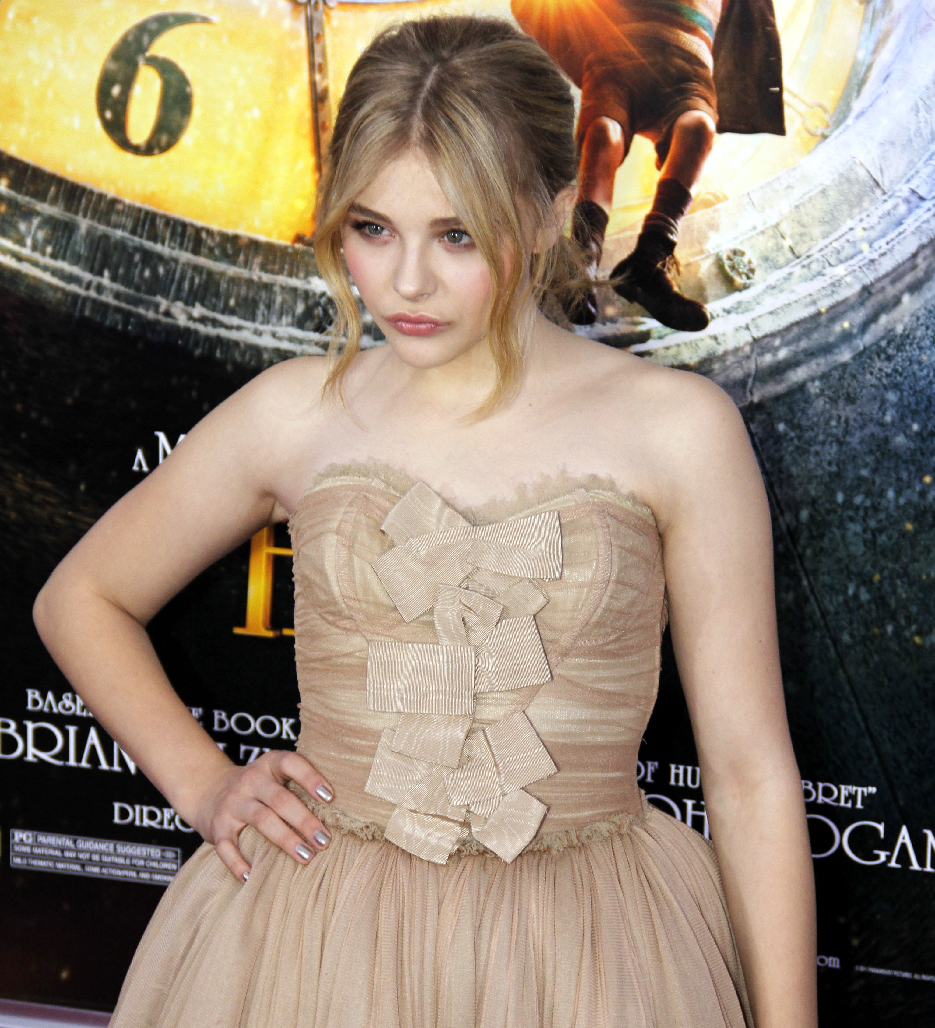 Chloë Grace Moretz at the Hugo Premiere, New York City 2011.